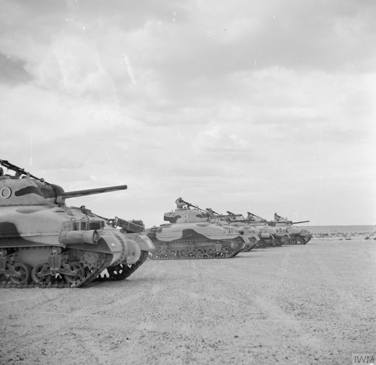 The British Army in North Africa 1942 Sherman tanks of The Queen's Bays (2nd Dragoon Guards), 1st Armoured Division, at El Alamein, 24 October 1942.